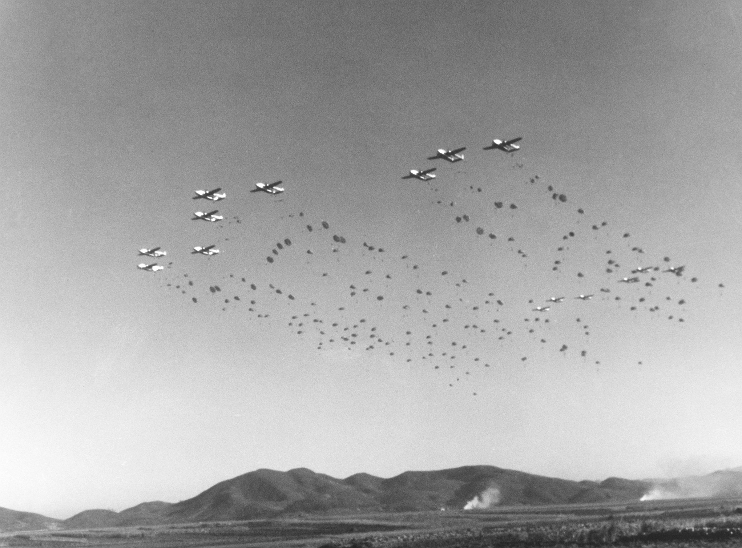 U.S. Army paratroopers of the 187th Regimental Combat Team jump out of U.S. Air Force C-119 Flying Boxcars of the 403rd Troop Carrier Wing during a maneuver near Taegu, Korea, on 1 November 1952.